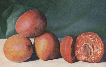 Mr. Burbank's plumcot - combination between two species - plum and apricot.